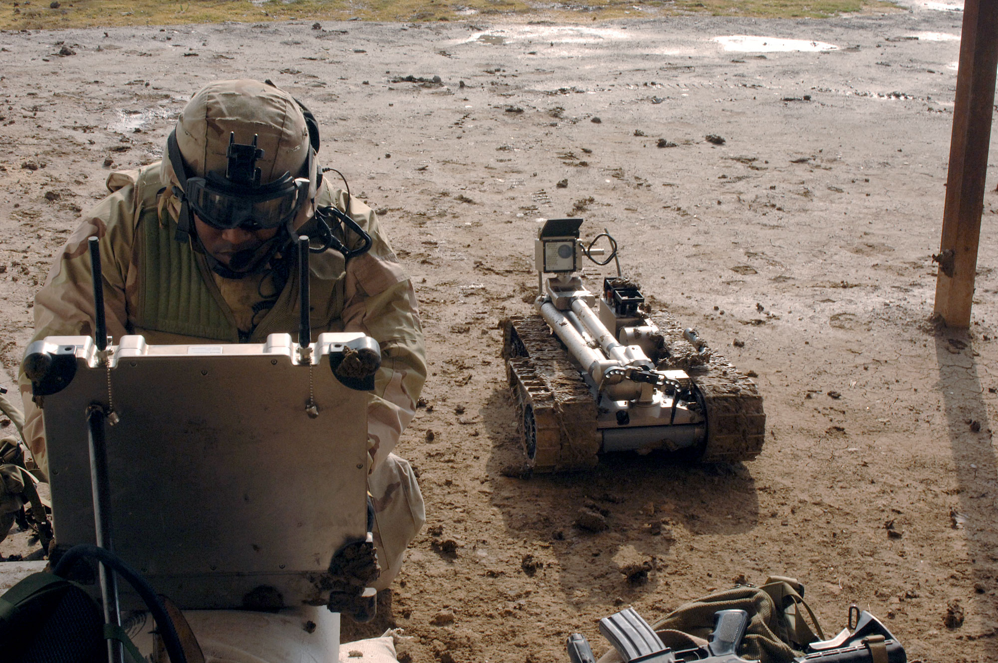 Military robot being prepared to inspect a bomb